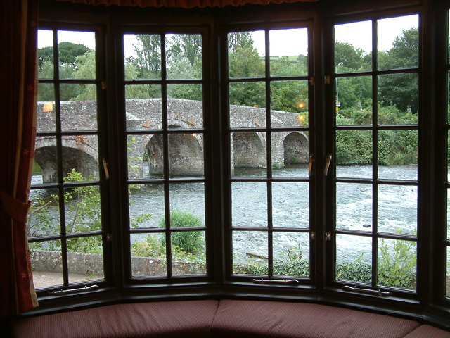 Bickleigh, The River and Bridge from inside The Fishermans Cot. I quite like "framing" photographs, and this one in particular looked right for the treatment.